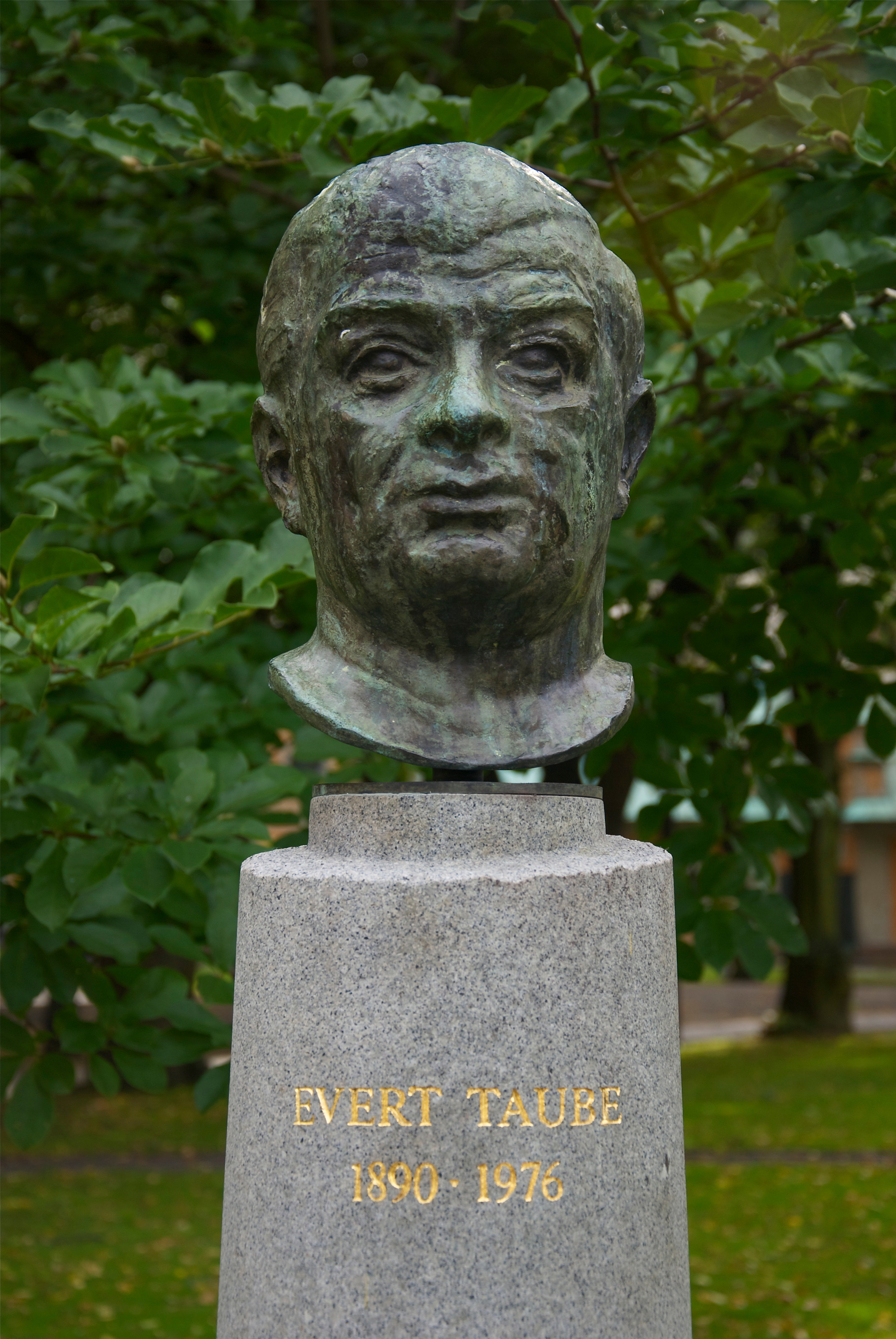 Evert Taube, outside Maria Magdalena kyrka.